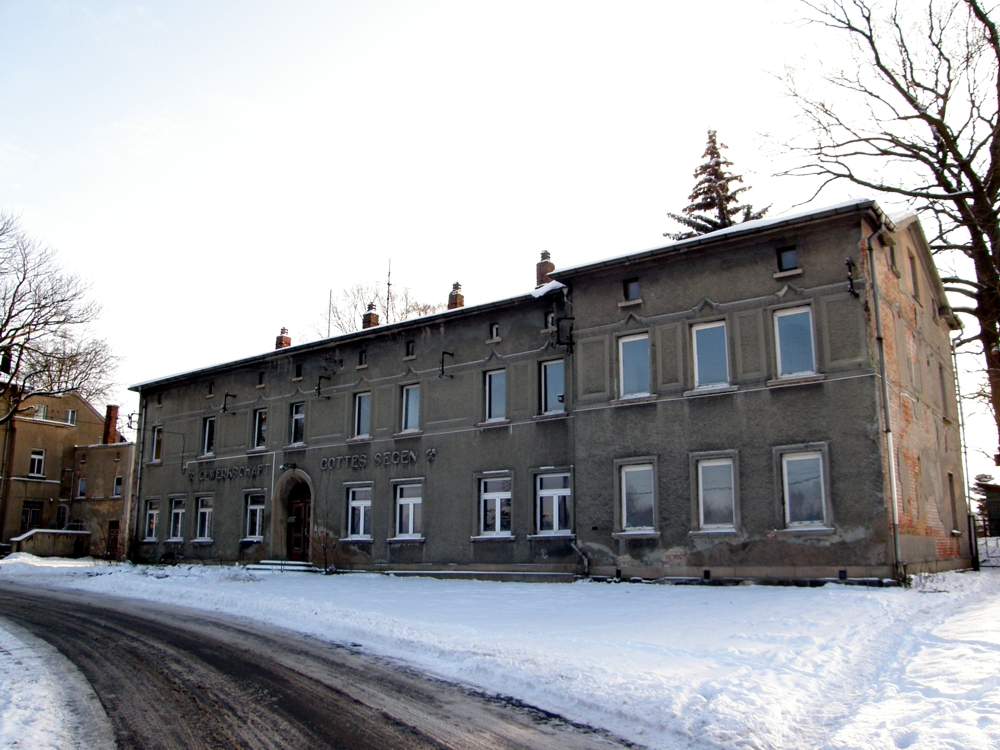 Former administration building of the "Gewerkschaft Gottes Segen" hard coal mining company in Lugau, Germany